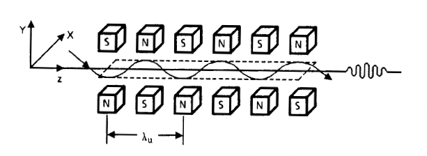 Undulator_wih_axis